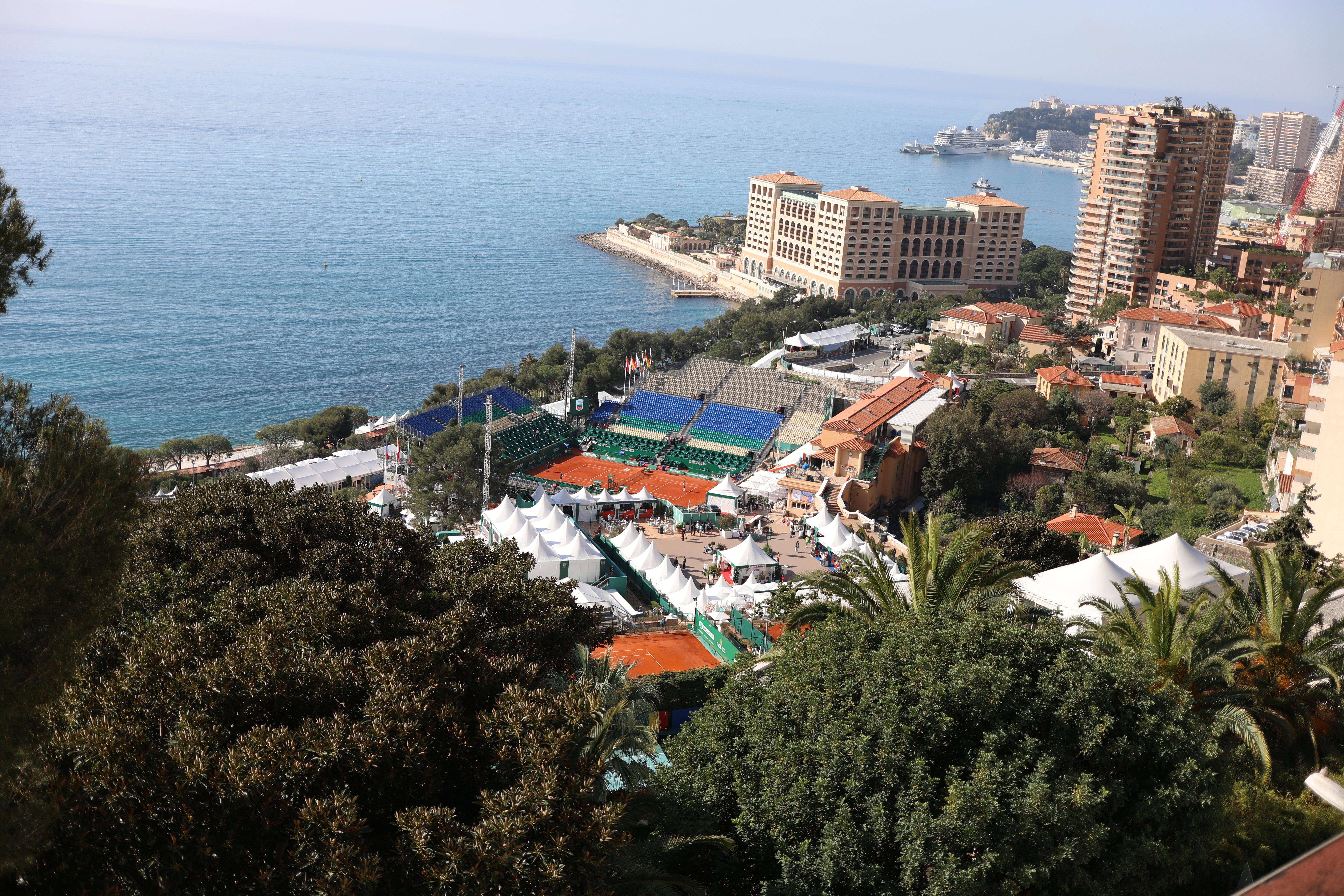 2018 Monte-Carlo Masters